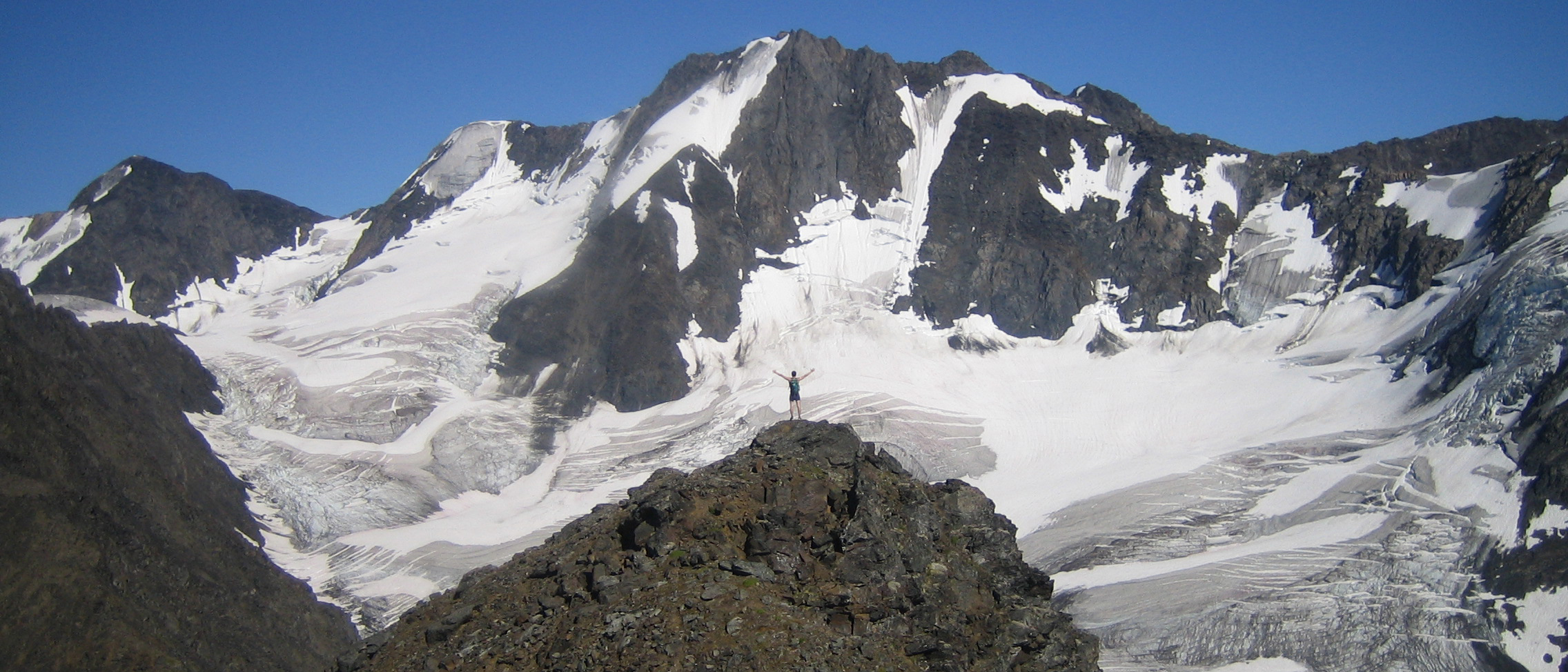 Goat Mountain in Chugach State Park, Alaska; near Girdwood and the well-known Crow Pass trail